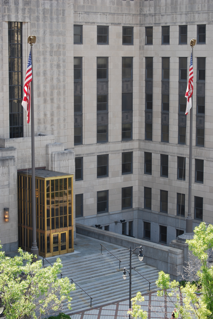 Jefferson County courthouse in Birmingham, Alabama